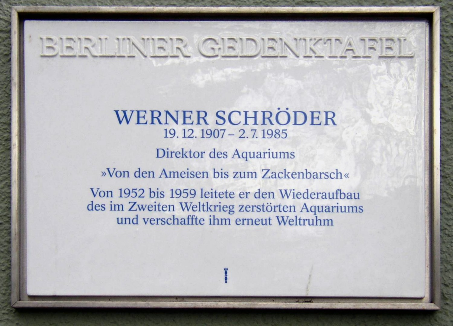 Berlin memorial plaque for Werner Schröder in Berlin-Tiergarten, Germany